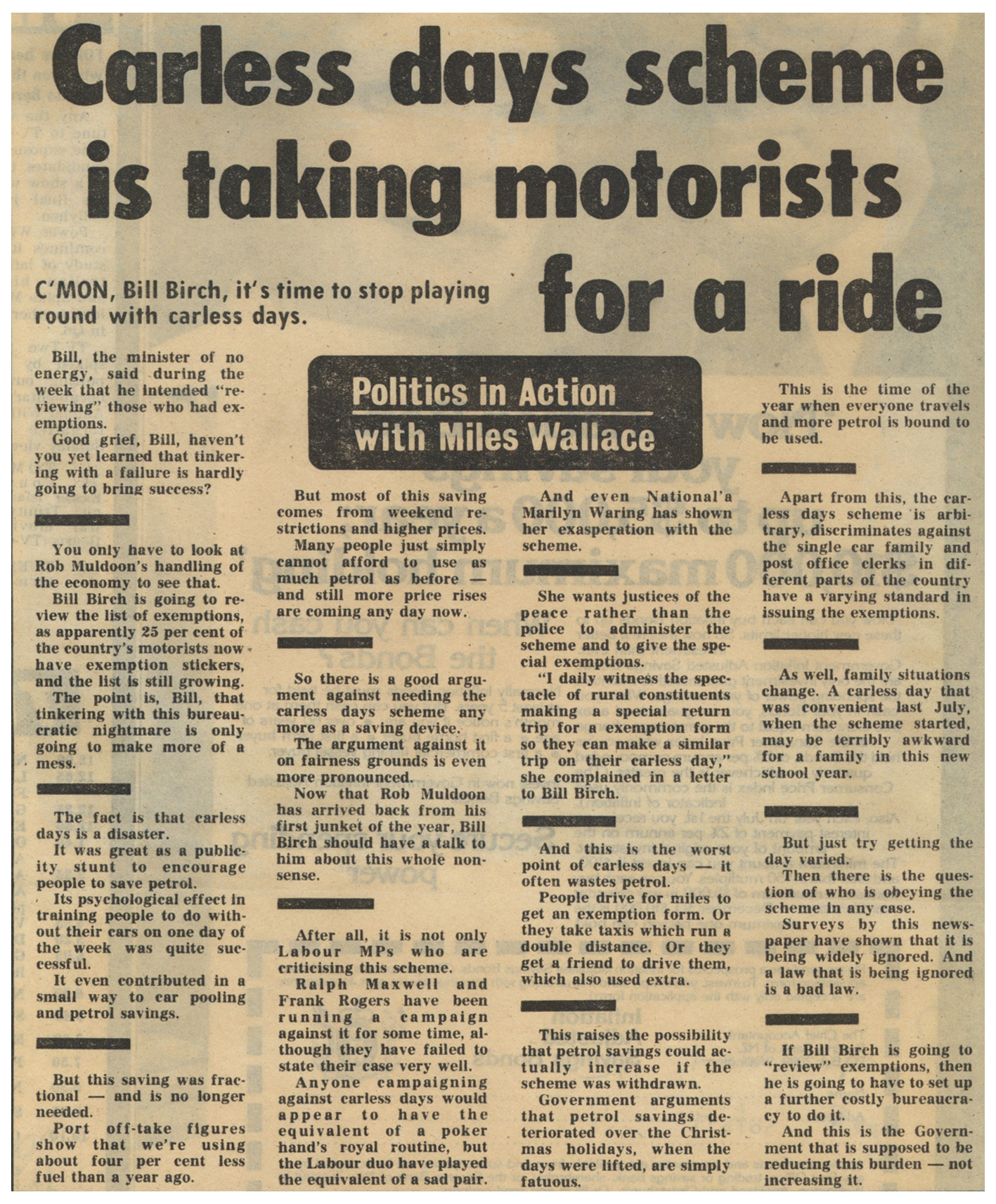 Many New Zealanders will remember the Carless Days scheme of 1979. Introduced by the Muldoon government, carless days sought to combat the second oil shock, although they did little to reduce petrol use, and were scrapped in May 1980. Under the legislation, all owners of vehicles under 4,400 pounds were required to refrain from using their car on a nominated day of the week. Each car displayed a sticker on the window which indicated the selected day; Thursdays were the most popular day. Infringements were punishable by a hefty fine. Exemptions were possible if the vehicle was needed for urgent business, and a black market for exemption stickers emerged, as did forgeries. This made enforcement difficult. Households able to run two cars had a distinct advantage over others as they could simply choose different carless days for each vehicle. Other efforts were made to restrict petrol use in the late 1970s including reducing the open-road speed limit from 100km/h to 80km/h and restricting the hours that petrol could be sold at service stations and garages. In the end, carless days legislation was in place for less than a year, and produced a very small drop in petrol use. The ban on weekend petrol sales only lasted for 18 months. The newspaper clippings above demonstrate public sentiment towards carless days well - it was believed to be pointless, and inconvenient to most. The clippings are from the Sunday News edition published 3 February 1980, and are a part of a larger scrapbook of newspaper clippings relating to the carless days scheme. Archives Reference: AAME W334 3/ MR 4/19 (R1963315) For updates on our On This Day series and news from Archives New Zealand, follow us on Twitter Material from Archives New Zealand